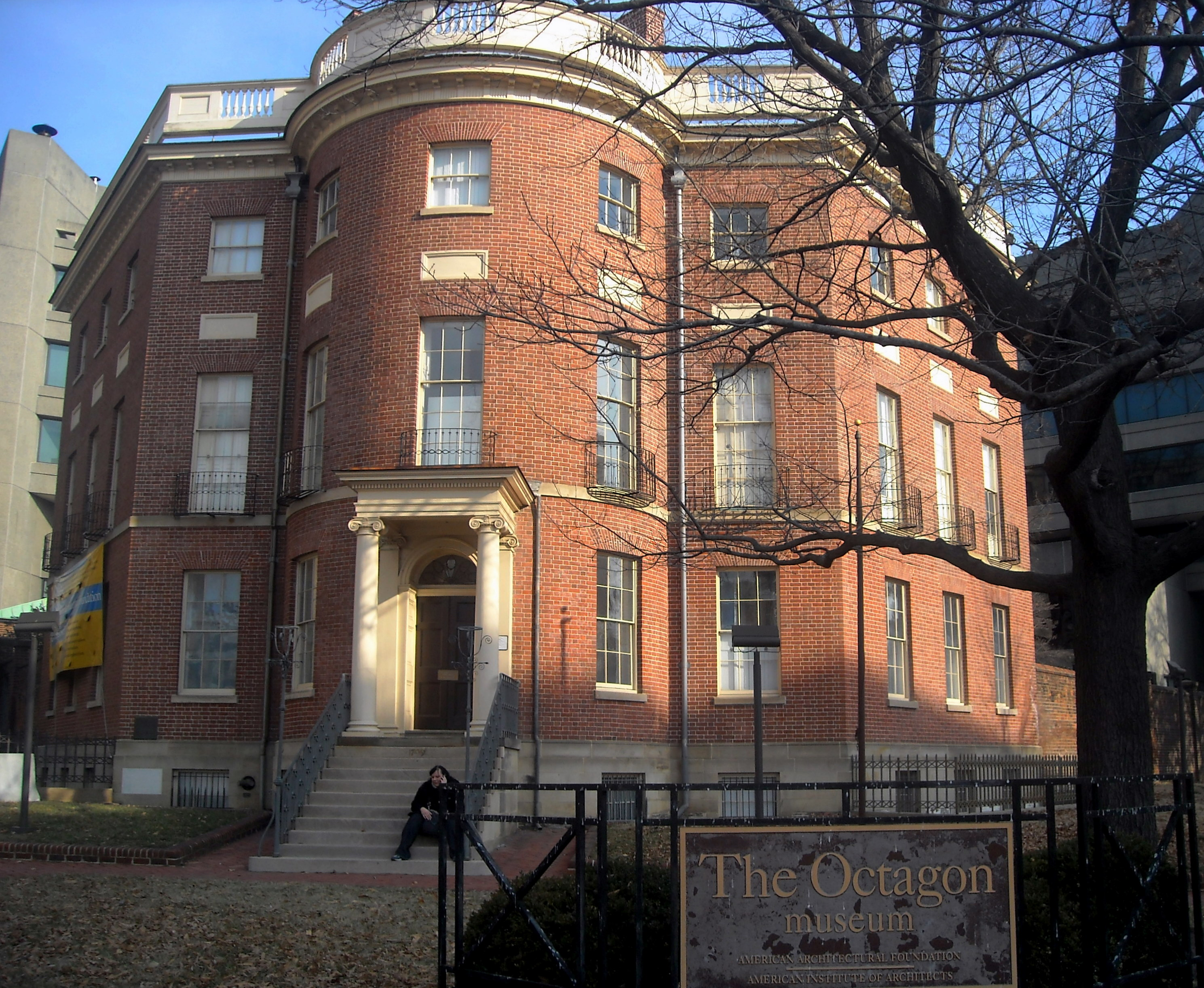 The Octagon House located at 1799 New York Avenue, NW in the Foggy Bottom neighborhood of Washington, D.C.